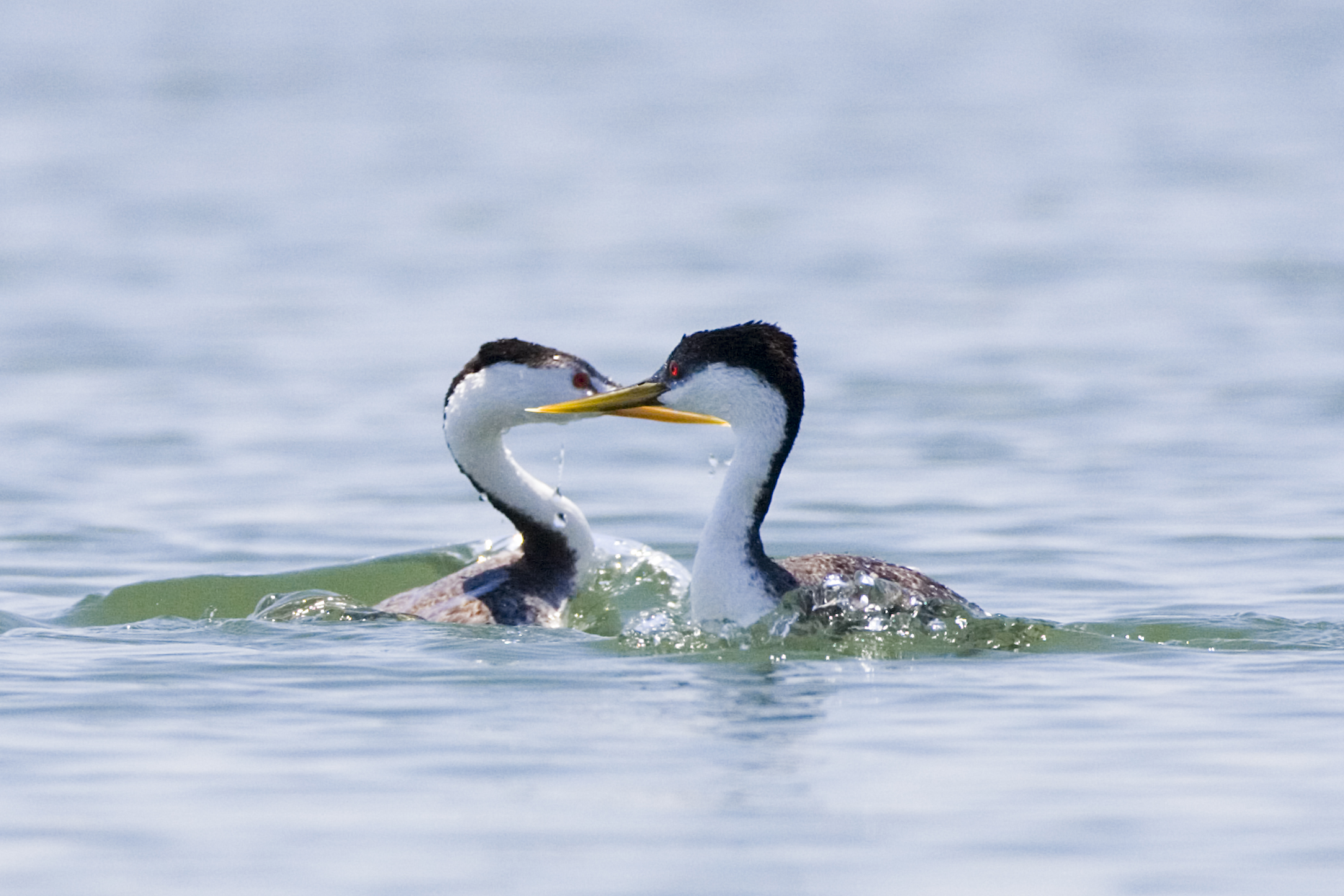 A Clark's Grebe and a Western Grebe collide, both coming up from a dive at the same time and bouncing into the other, in Morro Bay, CA 08 May 2007, photographed at Coleman Beach at low tide. Photo by Mike Baird Canon 5D w/ 600mmIS on sturdy tripod